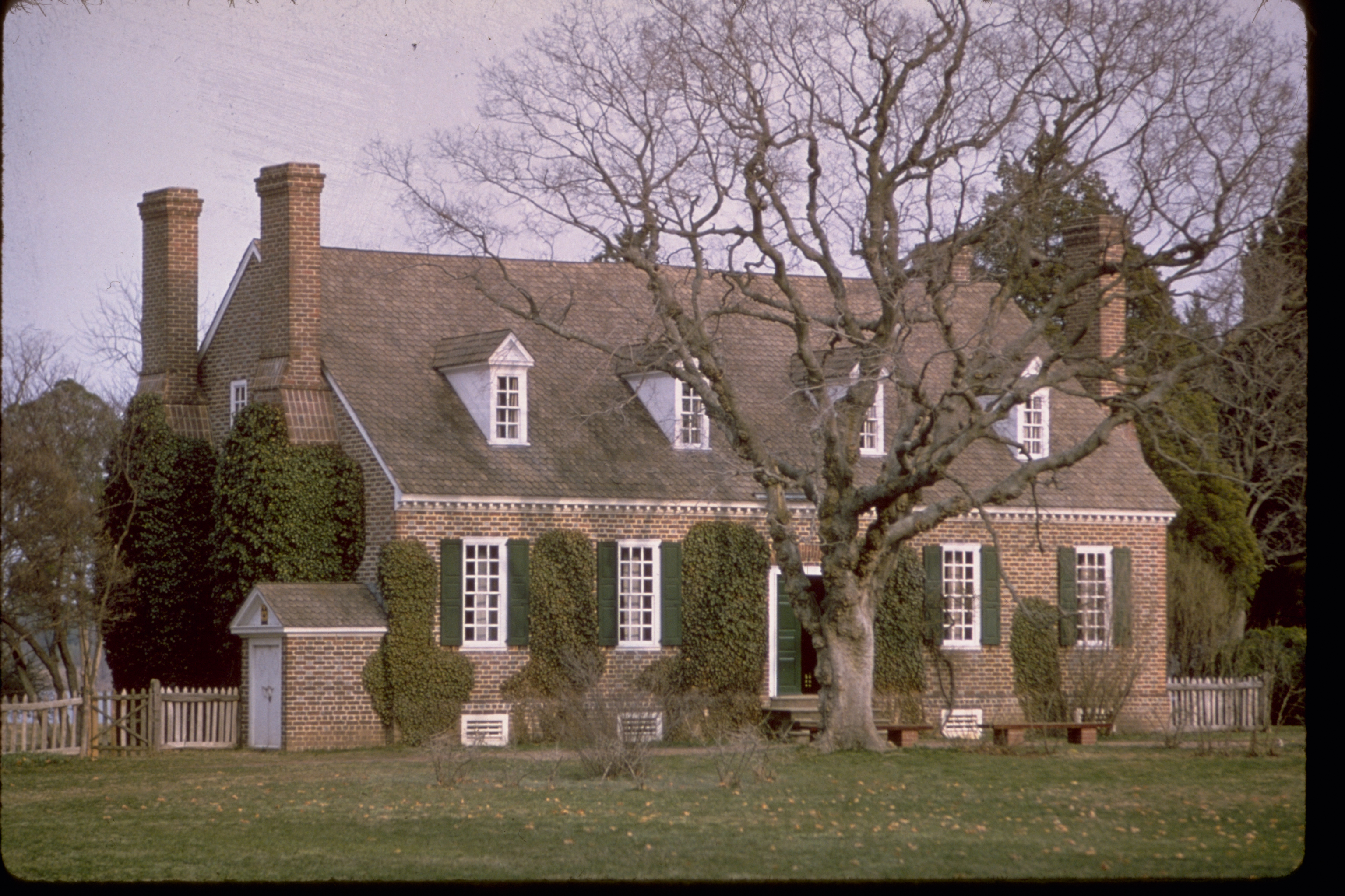 Location George Washington Birthplace National Monument Description George Washington, America’s first and greatest hero, was crucial to the establishment of the United States as a nation founded on the principles of liberty. George Washington Birthplace preserves the heart of the Washington lands and a memorial plantation. Here, in the peace and beauty of this place untouched by time, the staunch character of our hero comes to the imagination.